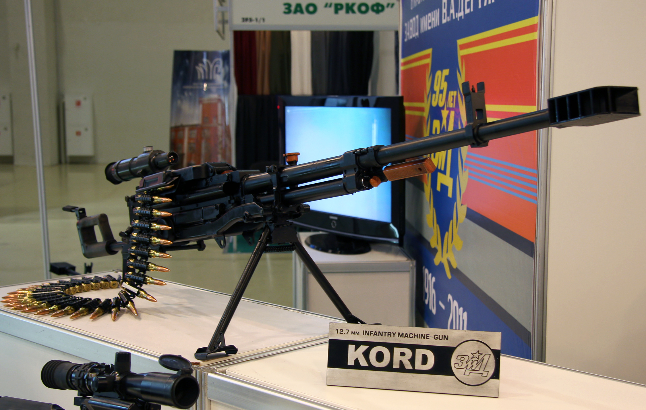 12,7mm Kord machinegun - Interpolitex-2011